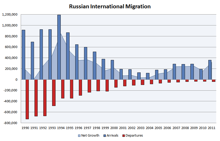 International migration flows to and from Russia since 1990. Source: Rosstat